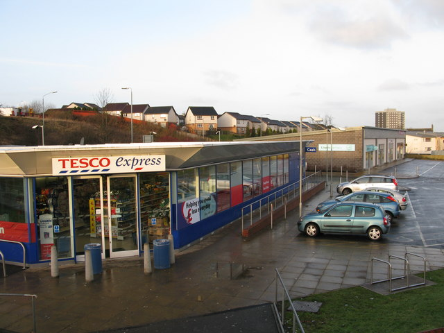 Small Shopping Centre just outside Halfway